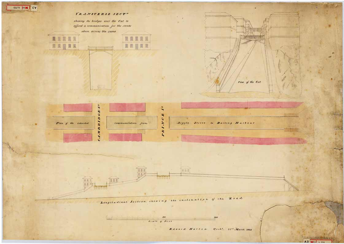 Transverse section showing the bridges over the [Argyle] Cut to afford a communication for the streets above, across the same, 22 March 1832 From the Surveyor General's Maps and plans. SRNSW: CGS 13859, [SZ 468]. This plan shows the bridges which were to be built over the Cut when it was completed. Convict labour was employed on the Argyle Cut which was made to give access from Sydney Cove to Miller's Point and Darling Harbour. Before the cut was excavated, pedestrians crossed the ridge by means of steps cut into the sandstone. The marks from the tools used in the operation remain as evidence of this feat of manual labour. The rock and rubble from the excavation was taken several hundred metres away to pack the mouth of the Tank Stream as a sea-wall at Circular Quay.